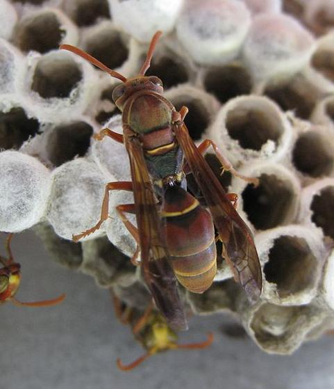 Wings folded back. Polistes humilis. Como NSW Australia, February 2011.